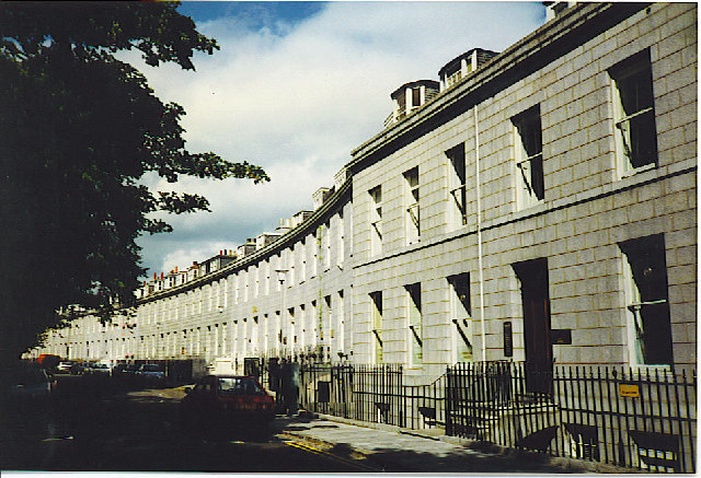 Bon Accord Crescent. This is one of the architect, Archibald Simpson's, best known streets in Aberdeen - built in granite ashlar.